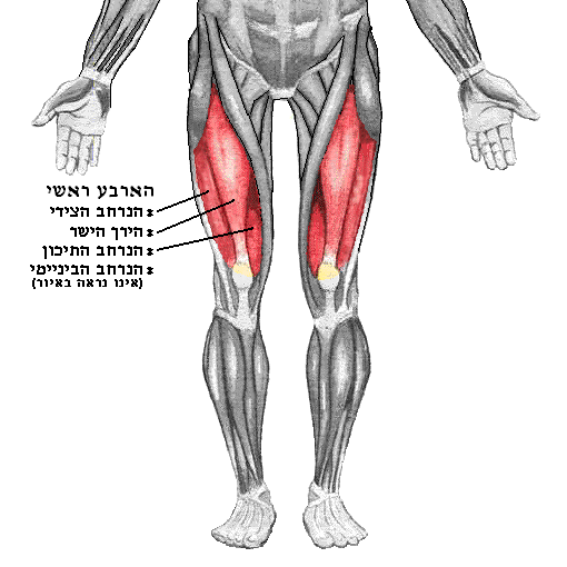 A translated version of Quadriceps.png